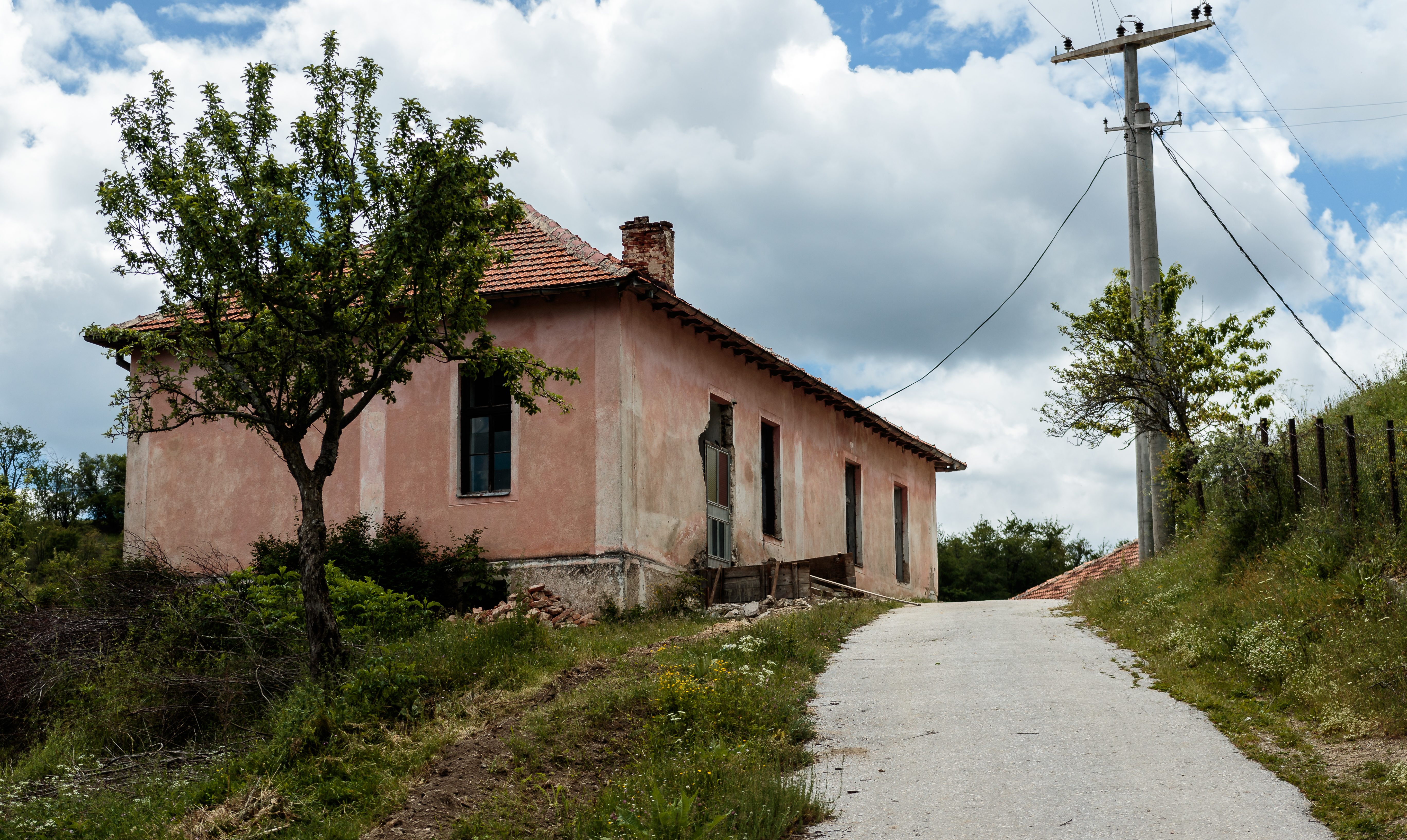 Old primary school in the village Zašle